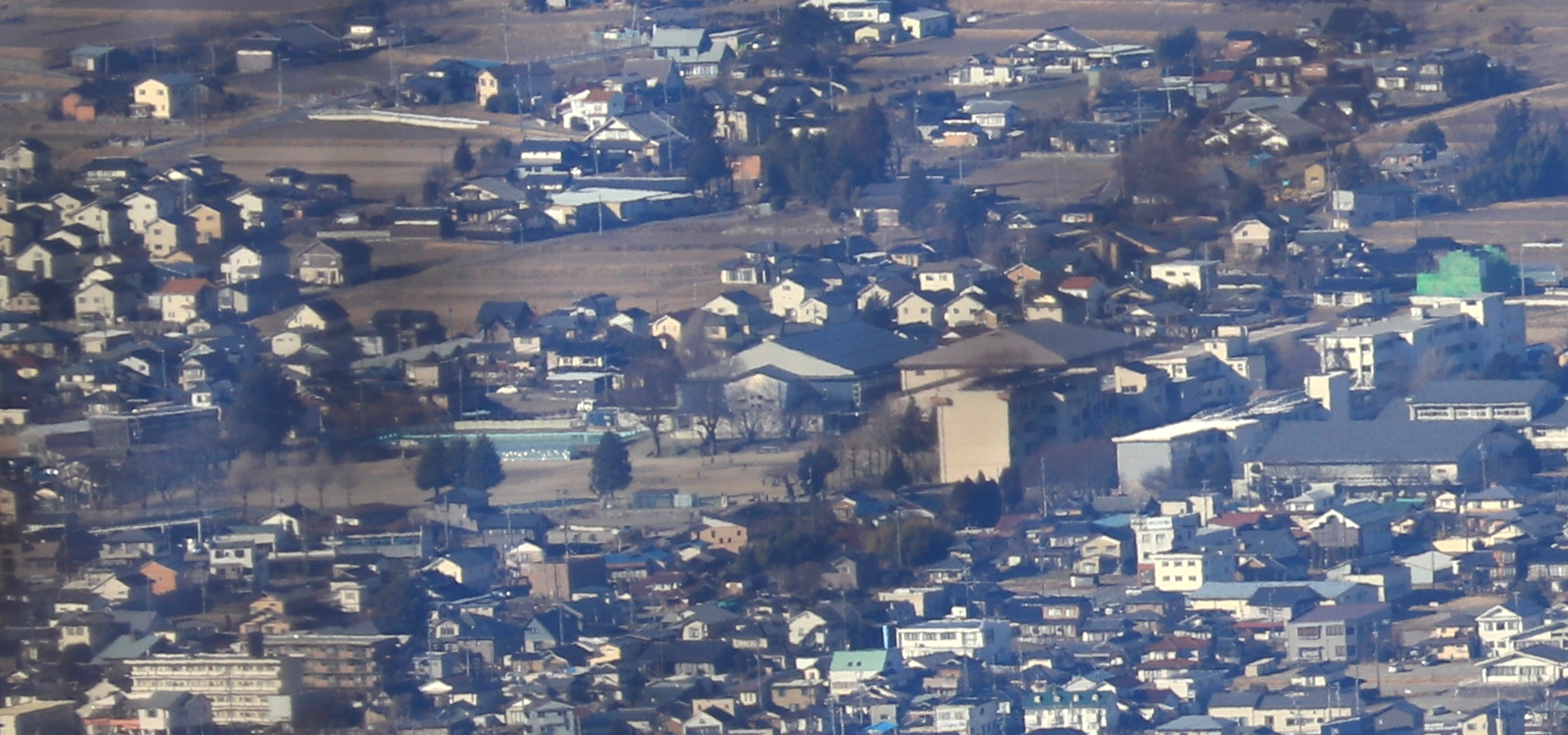 Komagane City Akaho Junior high school seen from Mount Tokura in Komagane, Nagano Prefecture, Japan. Canon EOS Kiss X9